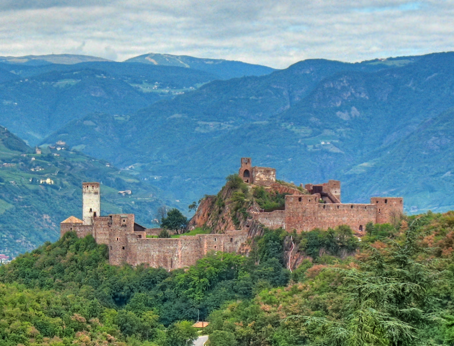 Sigmundskron